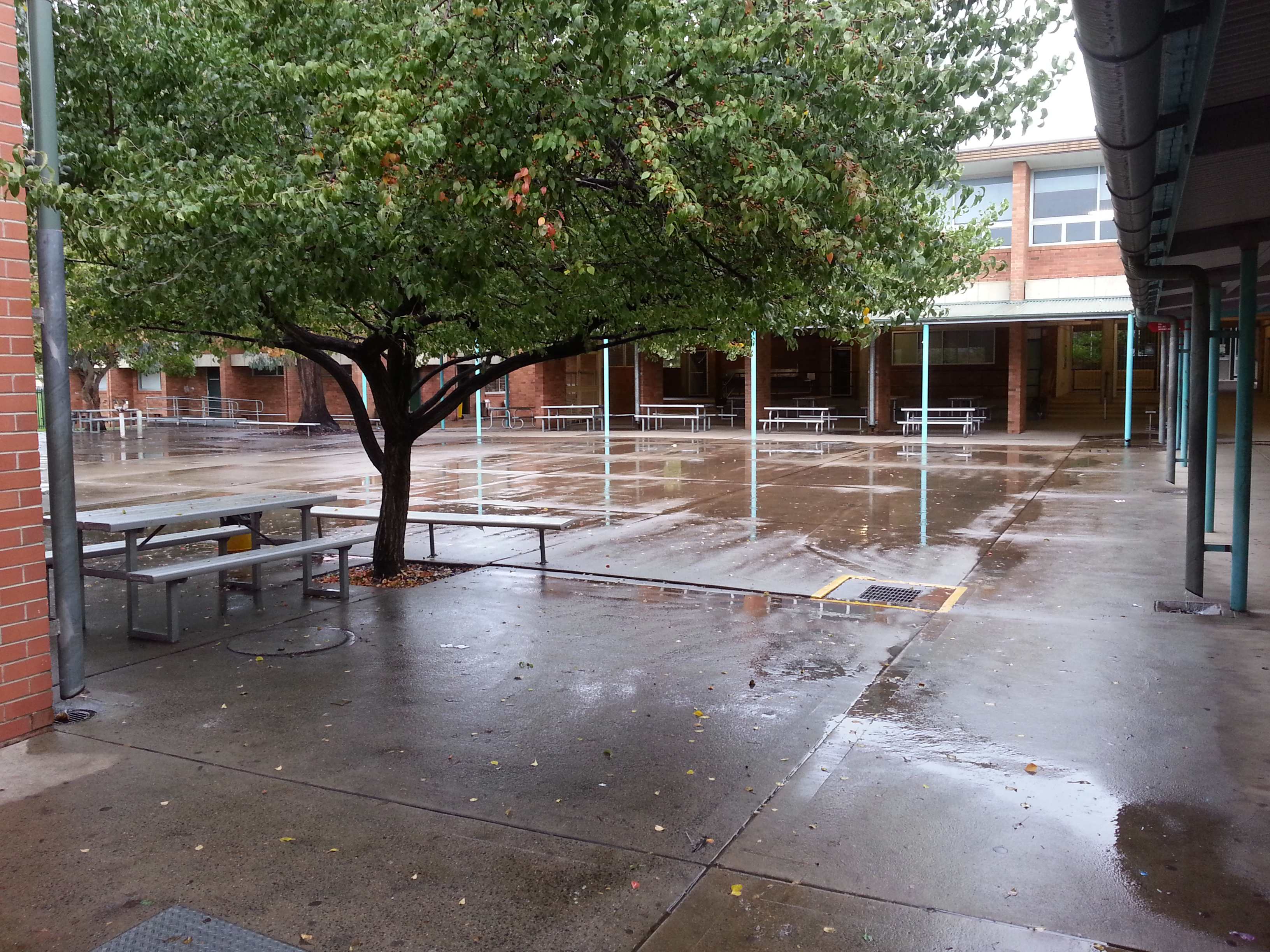 On a wet afternoon